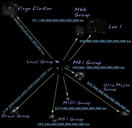 The local Supercluster